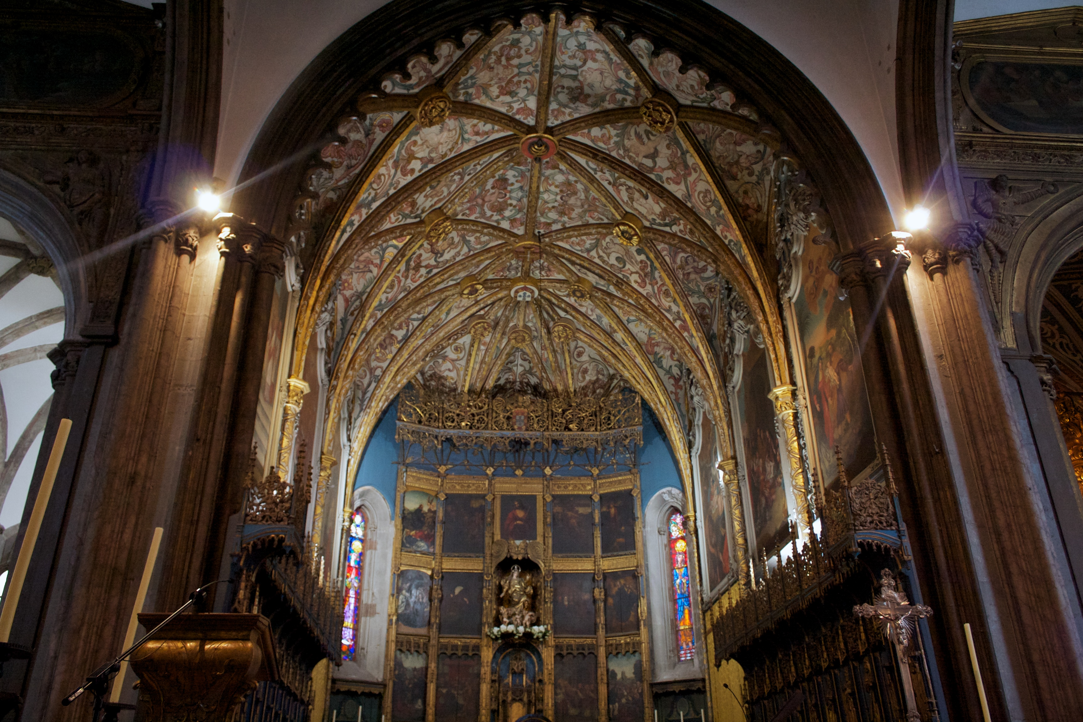 Main chapel of Sé do Funchal